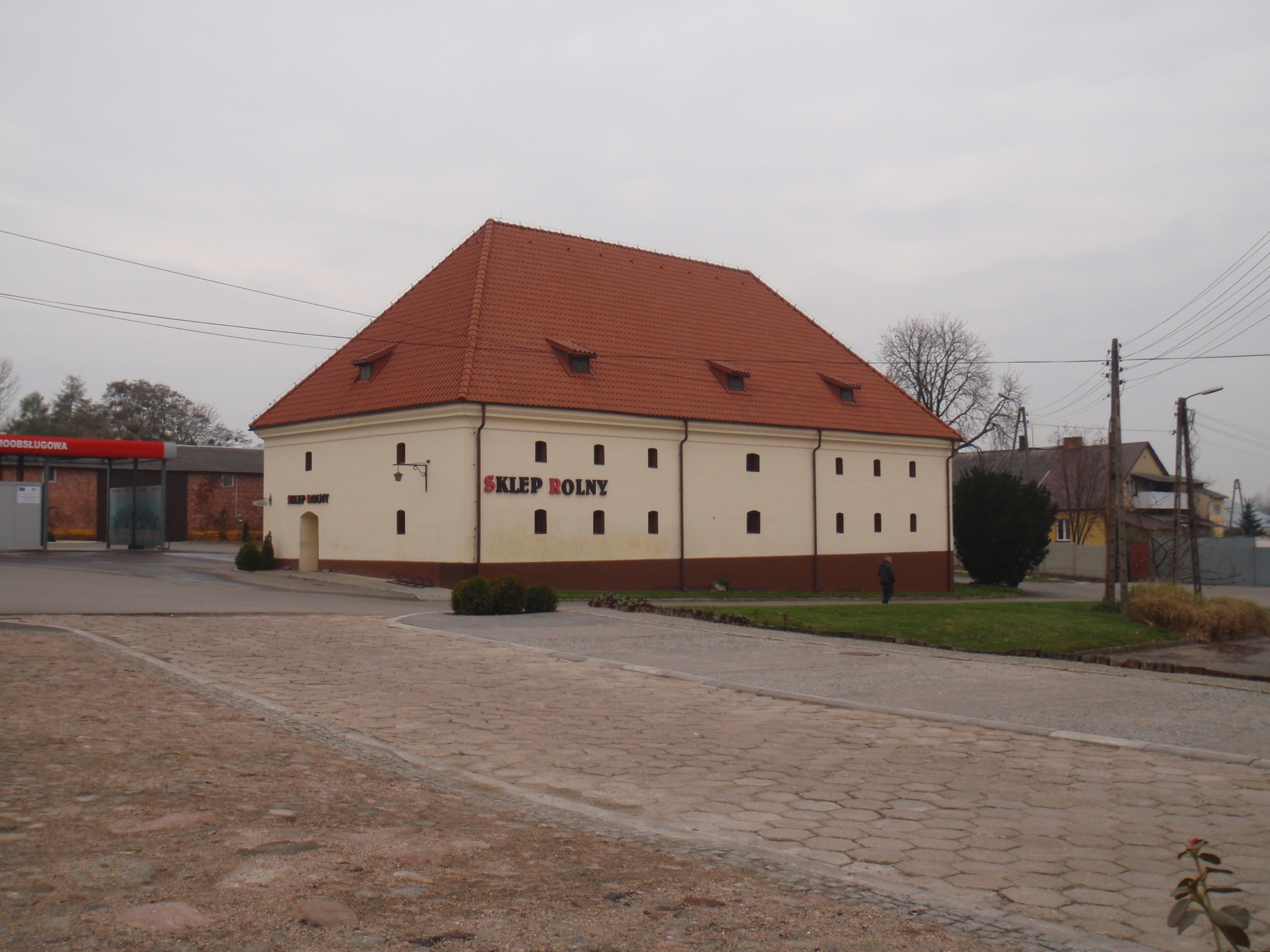 Granary in Końskowola